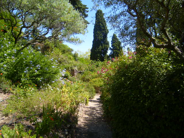 View of the gardens of Castel Sainte-Claire, Hyeres, France